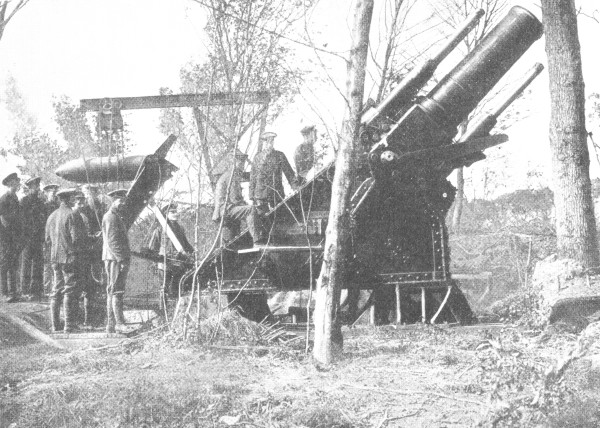 Photograph of British 15 inch Howitzer with shell being hoisted, Englebelmer Wood, Battle of the Somme. NOTE : brightness and contrast have been artificially increased to display more detail of the gun.